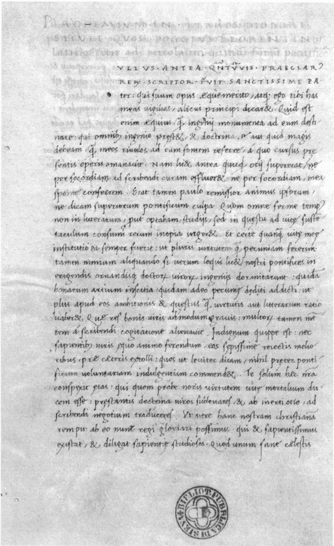 Latin translation of Diodorus Siculus by Poggio Bracciolini: Personal dedication of Poggio to Pope Nicholas V. Manuscript Siena, Biblioteca Comunale degli Intronati, K.V.18, fol. 1r.